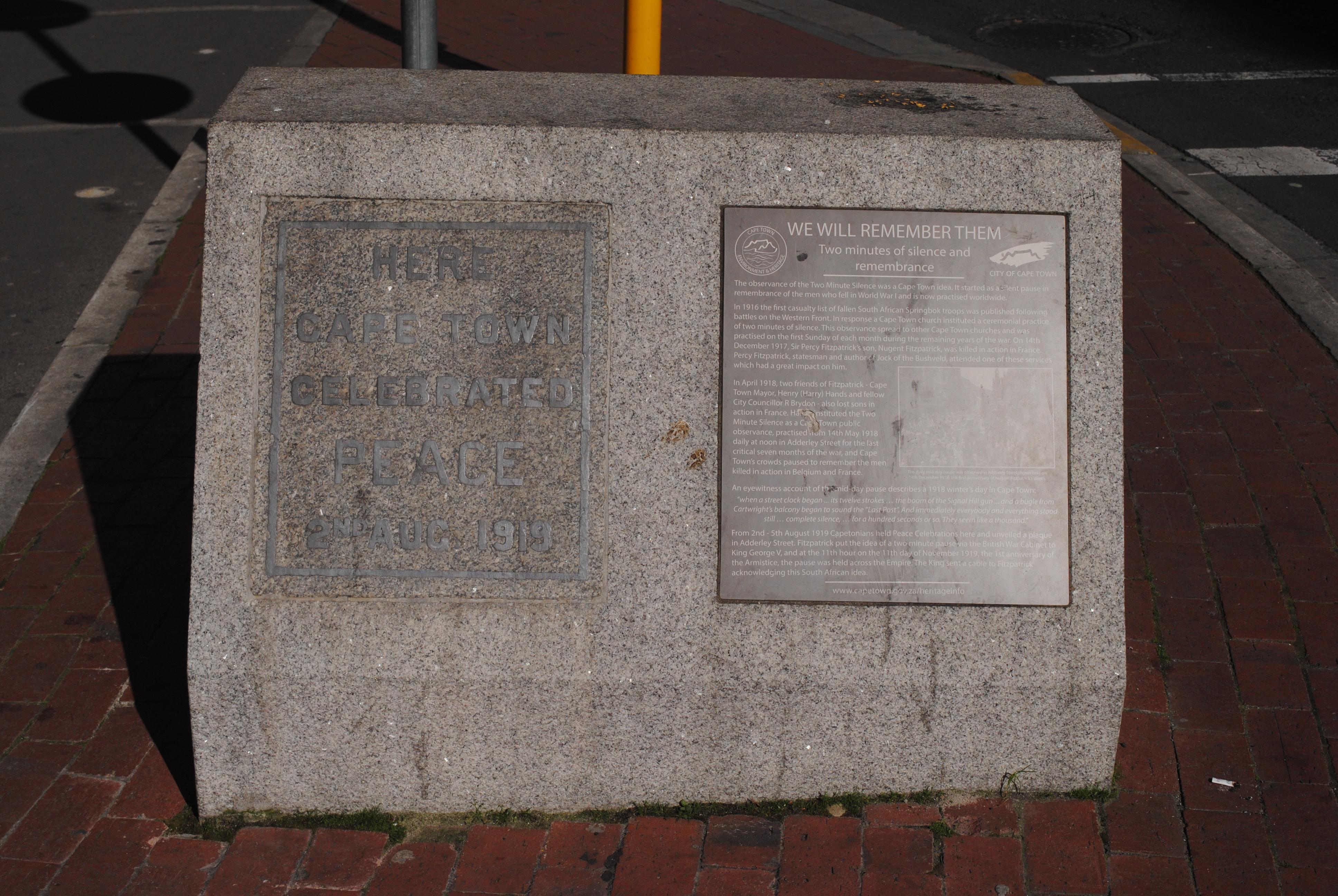 Memorial commemorating the first Two-minute silence in Cape Town, South Africa.